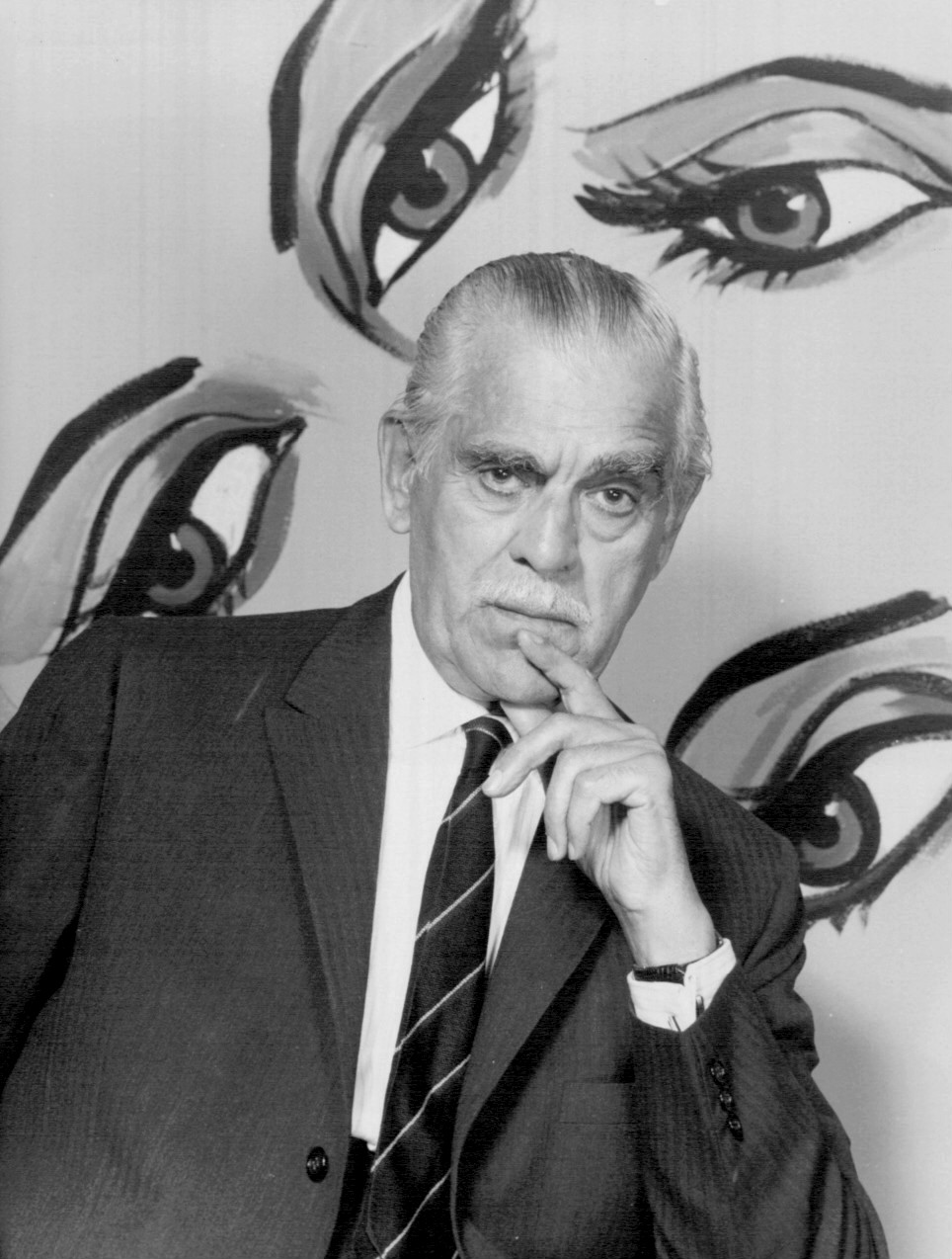 Photo of Boris Karloff from the television program Thriller.